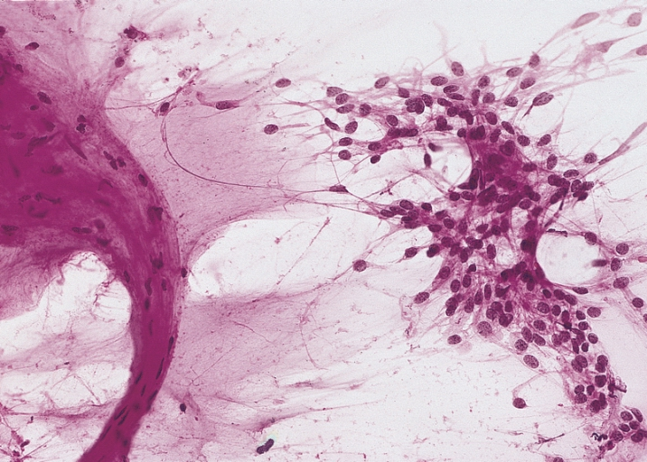 CNS: MYXOPAPILLARY EPENDYMOMA The cells relate to the vessel at the left of the illustration through a perivascular collar of mucin.